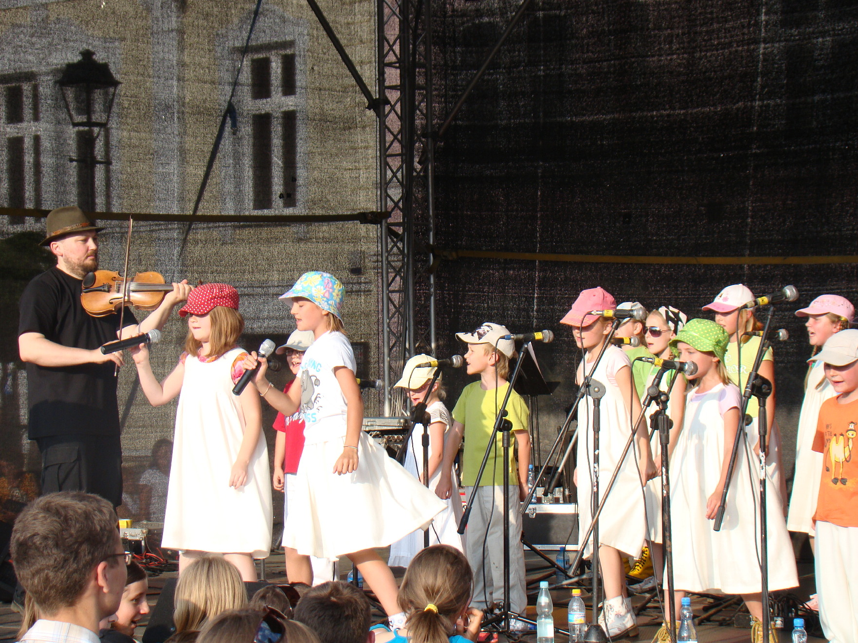 Dzieci z Brodą in Sanok